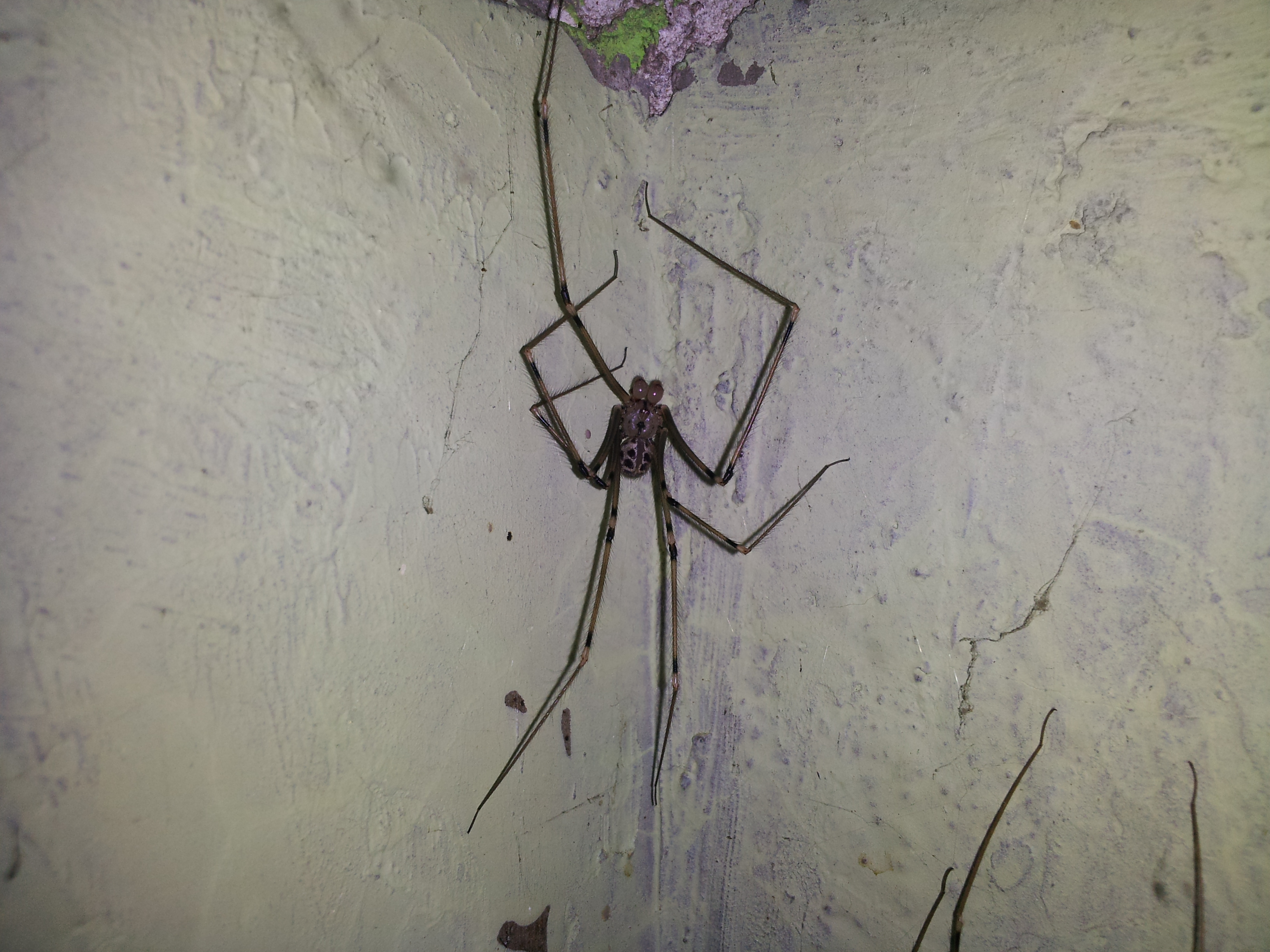 spider sp. in Bakamuna, Sri Lanka